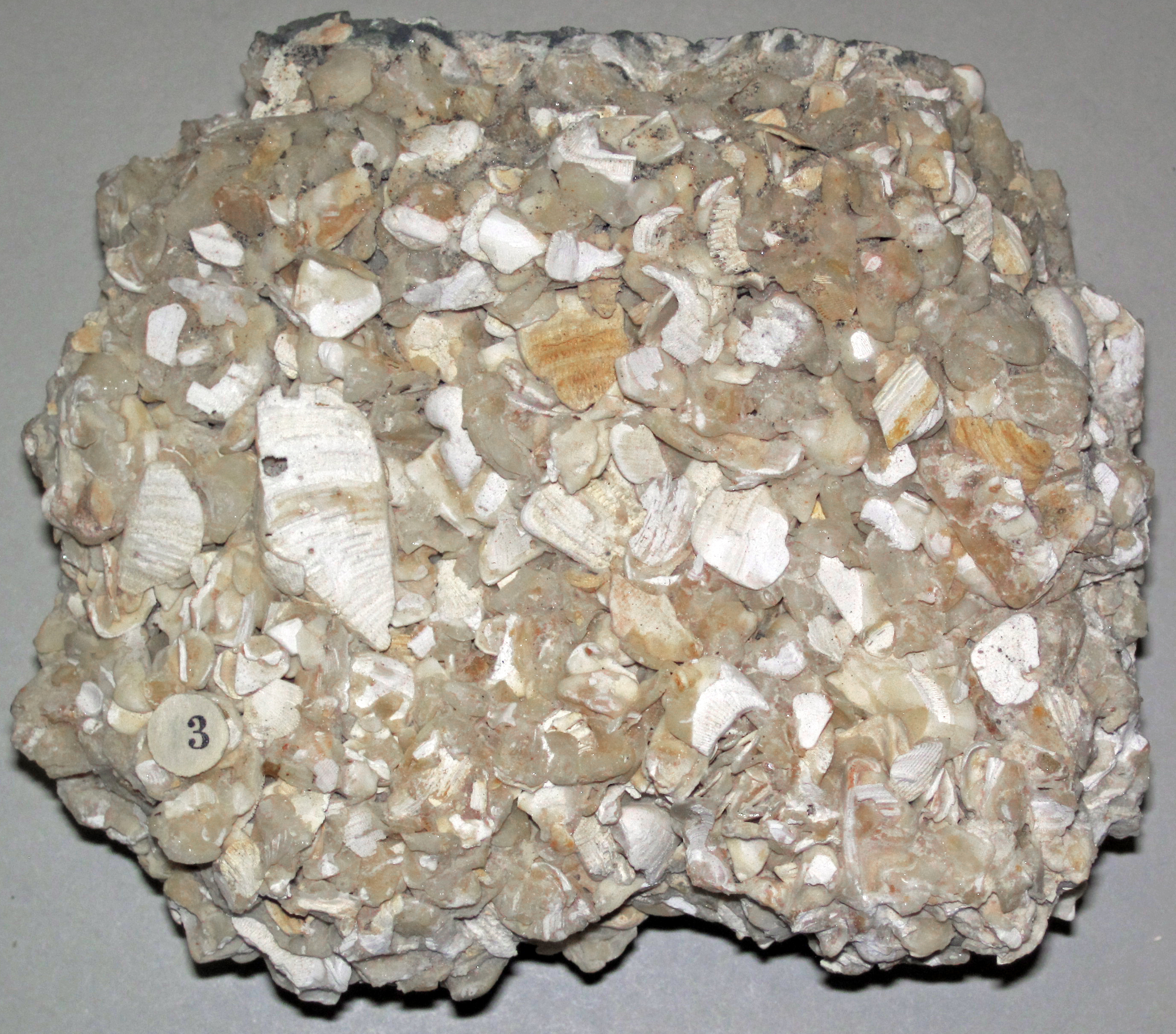 Coquina from the Quaternary of Florida, USA This is a distinctive variety of fossiliferous limestone called coquina. It is composed of finely-busted up seashells, typically clam shells & snail shells (bivalves & gastropods). Coquinas have high porosity - a significant amount of empty space exists between the grains. This results in coquina having a spongy appearance. Many samples are mixed with quartzose sand. Coquina had military significance in early American history. Some military forts in Florida were constructed with coquina walls. The coquina essentially absorbed any cannonballs that were shot at the walls. Stratigraphy: Anastasia Formation, Upper Pleistocene to Holocene Locality: unrecorded/undisclosed site at or near St. Augustine, northern part of the Atlantic Coast of Florida, USA